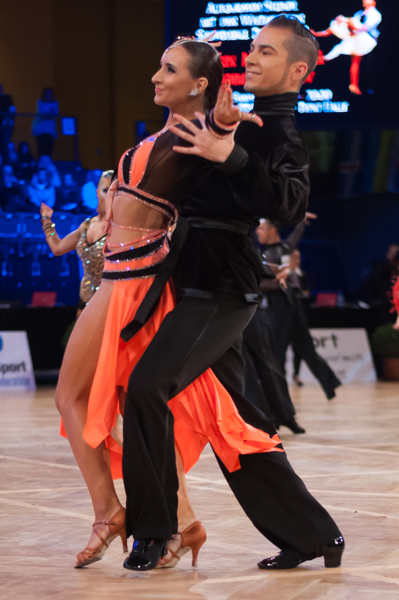 2015 WDSF World DanceSport Championship Latin, 2015-11-21, Schwechat, Lower Austria